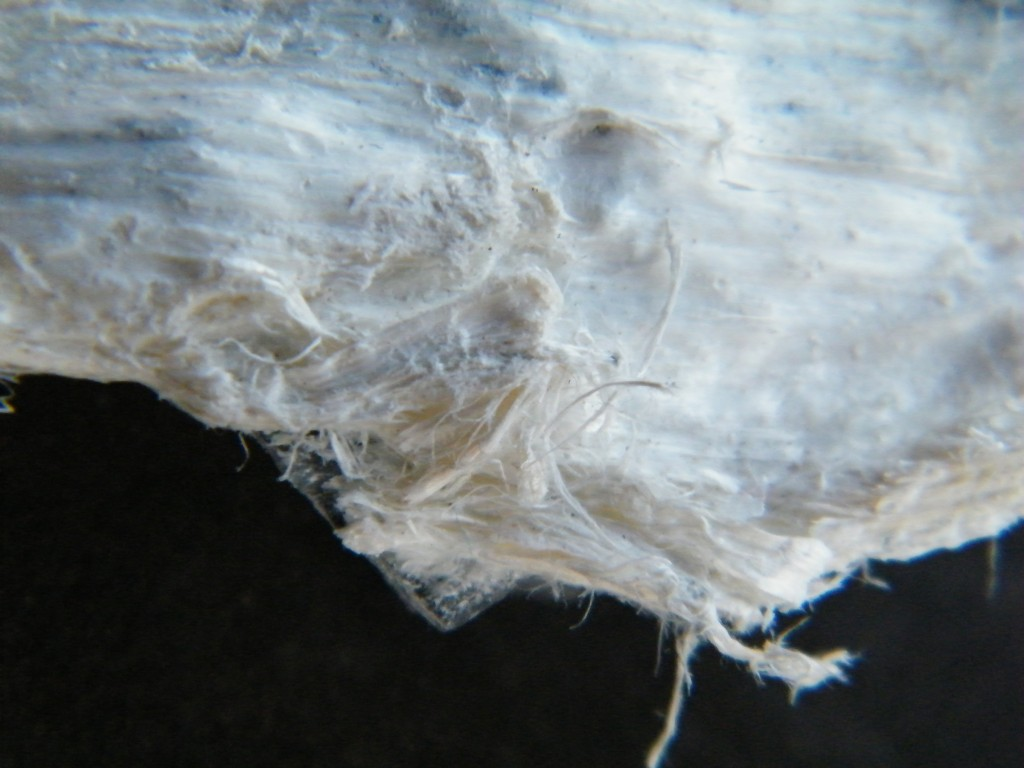 Palygorskite (Dimensions: 2.75" x 1.5" x 1.5", close-up (child photo) about 1 inch wide) Locality: Lone Jack Quarry, Glasgow, Rockbridge County, Virginia, USA Original description: Silky white palygorskite on calcareous dolostone from Virginia. Also known as "mountain leather" and attapulgite (after Attapulgus, Georgia). Child close-up photo. Palygorskite is a key component in the pigment "Maya Blue" used in Mayan ceramics, painting, and textiles. Sources of palygorskite have recently been found in Yucatan Peninsula sinkholes. Currently used in many manufacturing processes, and as an anti-diarrheal.